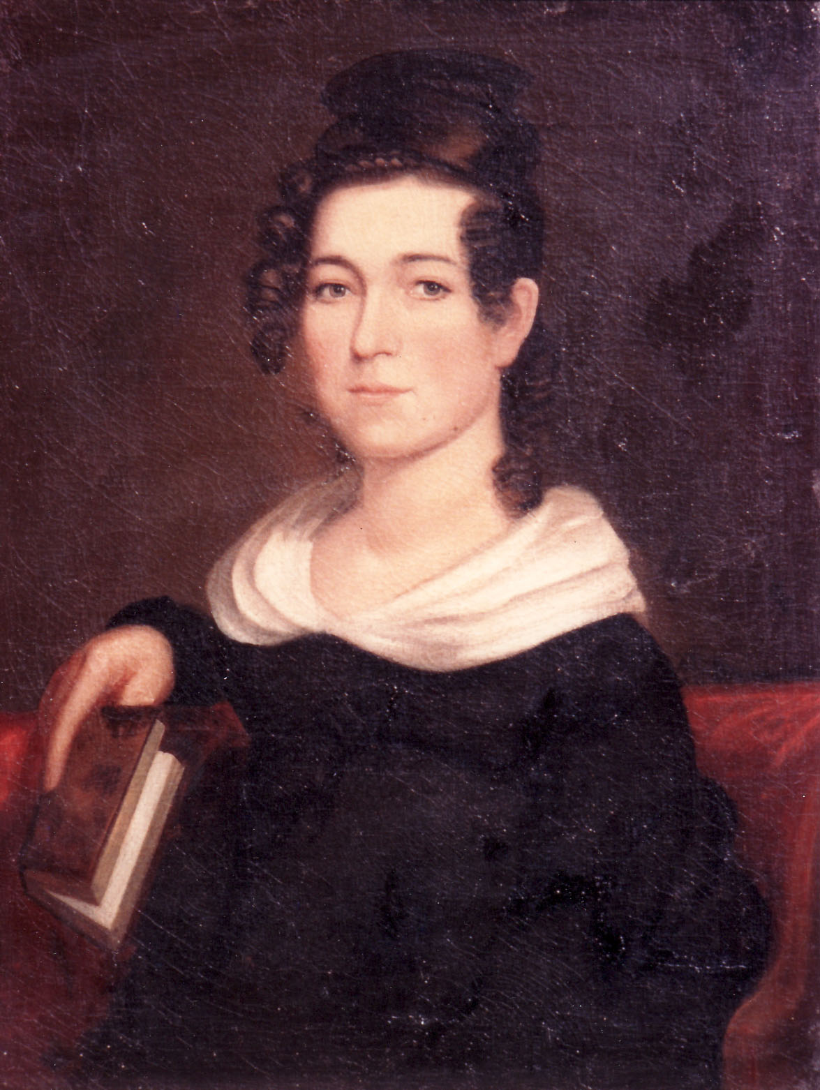 Portrait of Mary Sibley